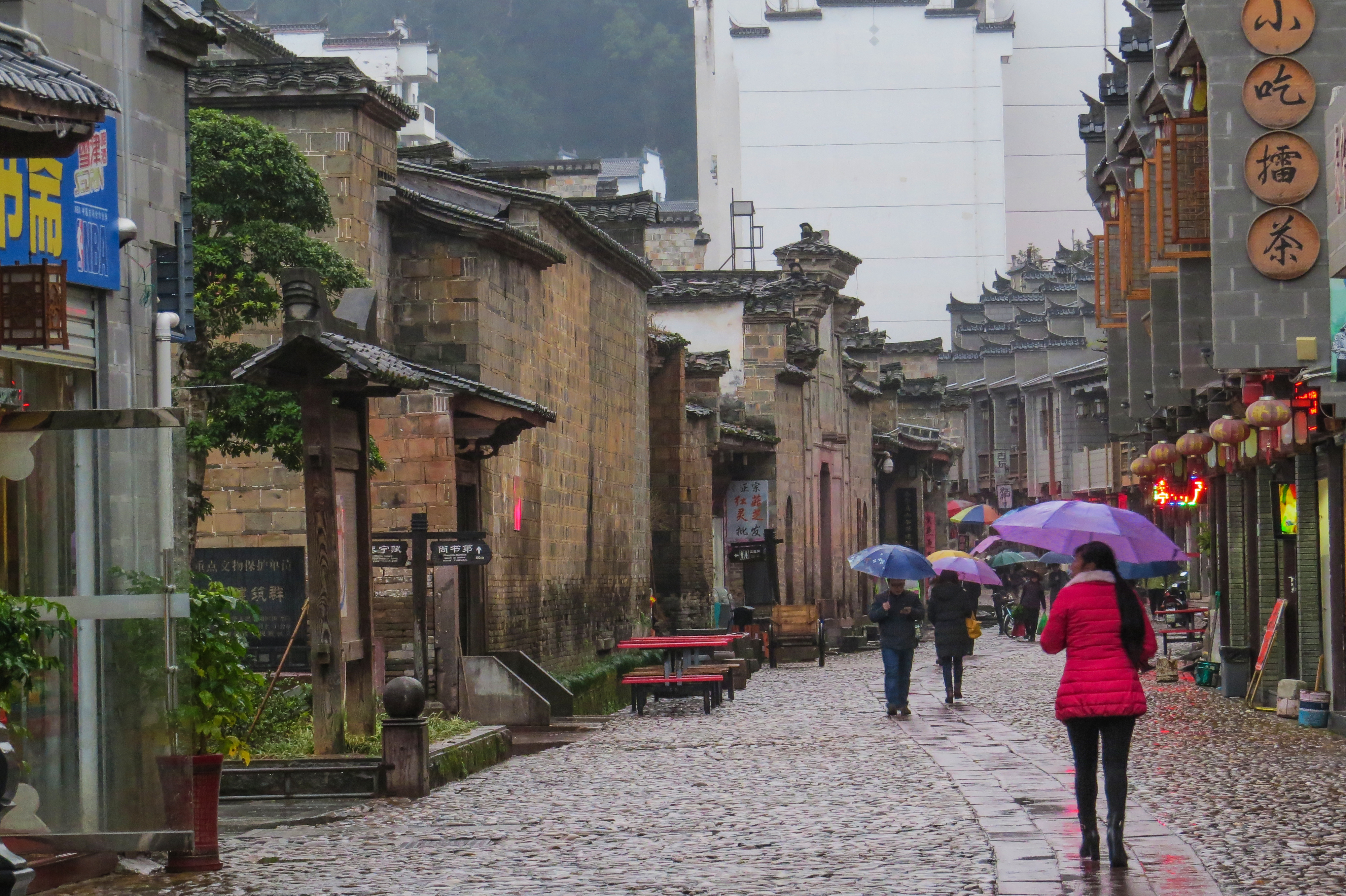 Antique street with high heeled steps...